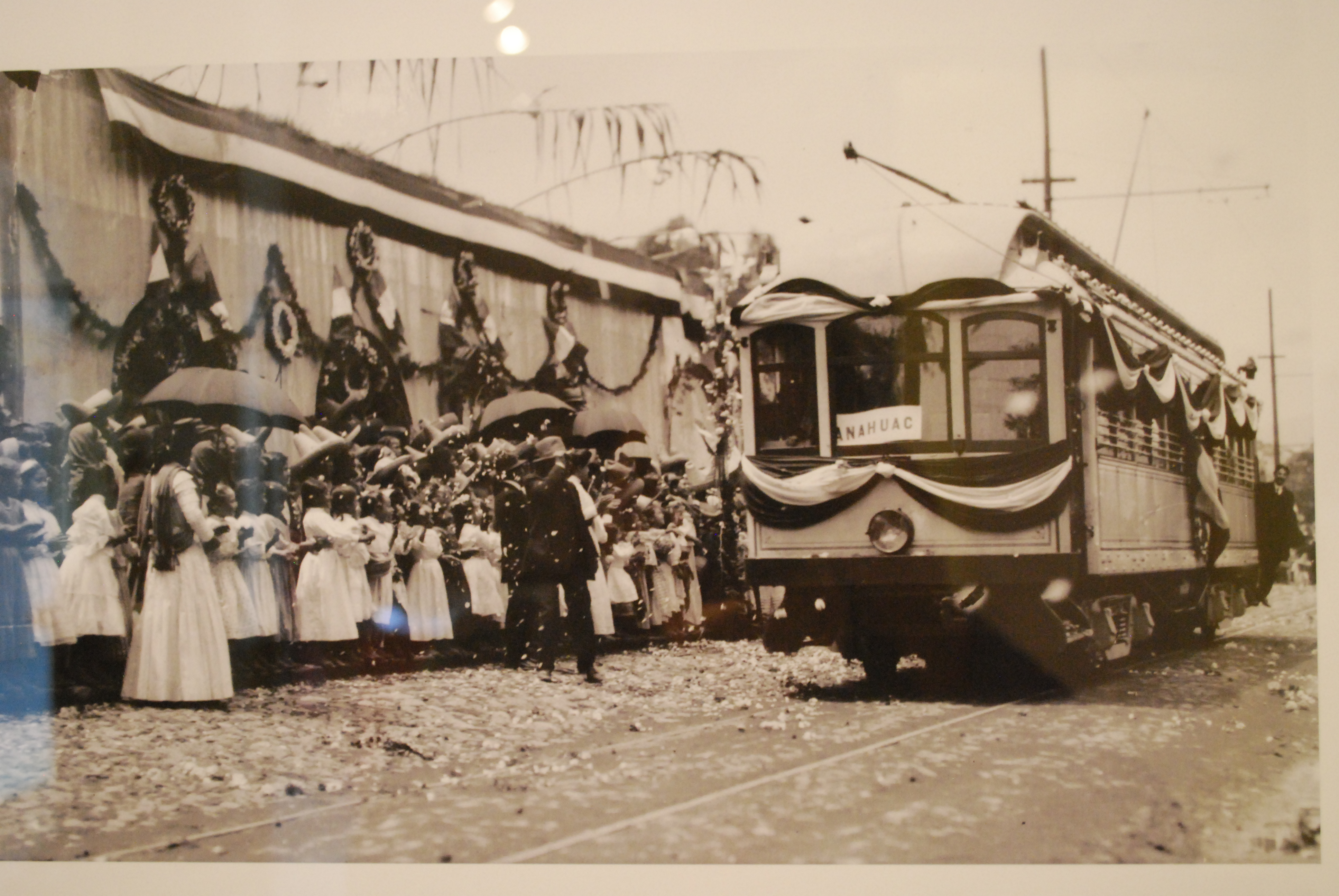 Inauguration of electric trolley 1900 in Mexico City author unknown